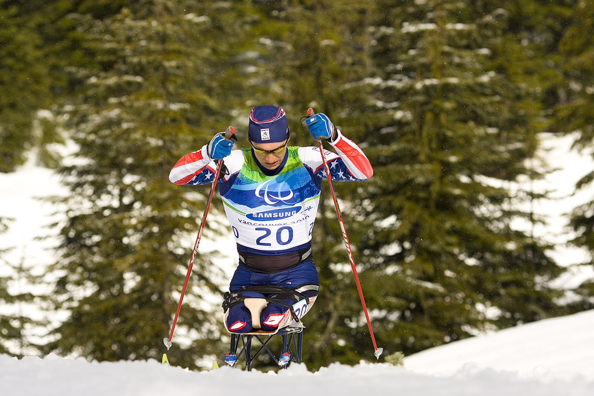 Andy Soule, who has been training in biathlon since 2005, won a bronze medal in the 1.49-mile event. He is the first American in history to win a medal in biathlon.